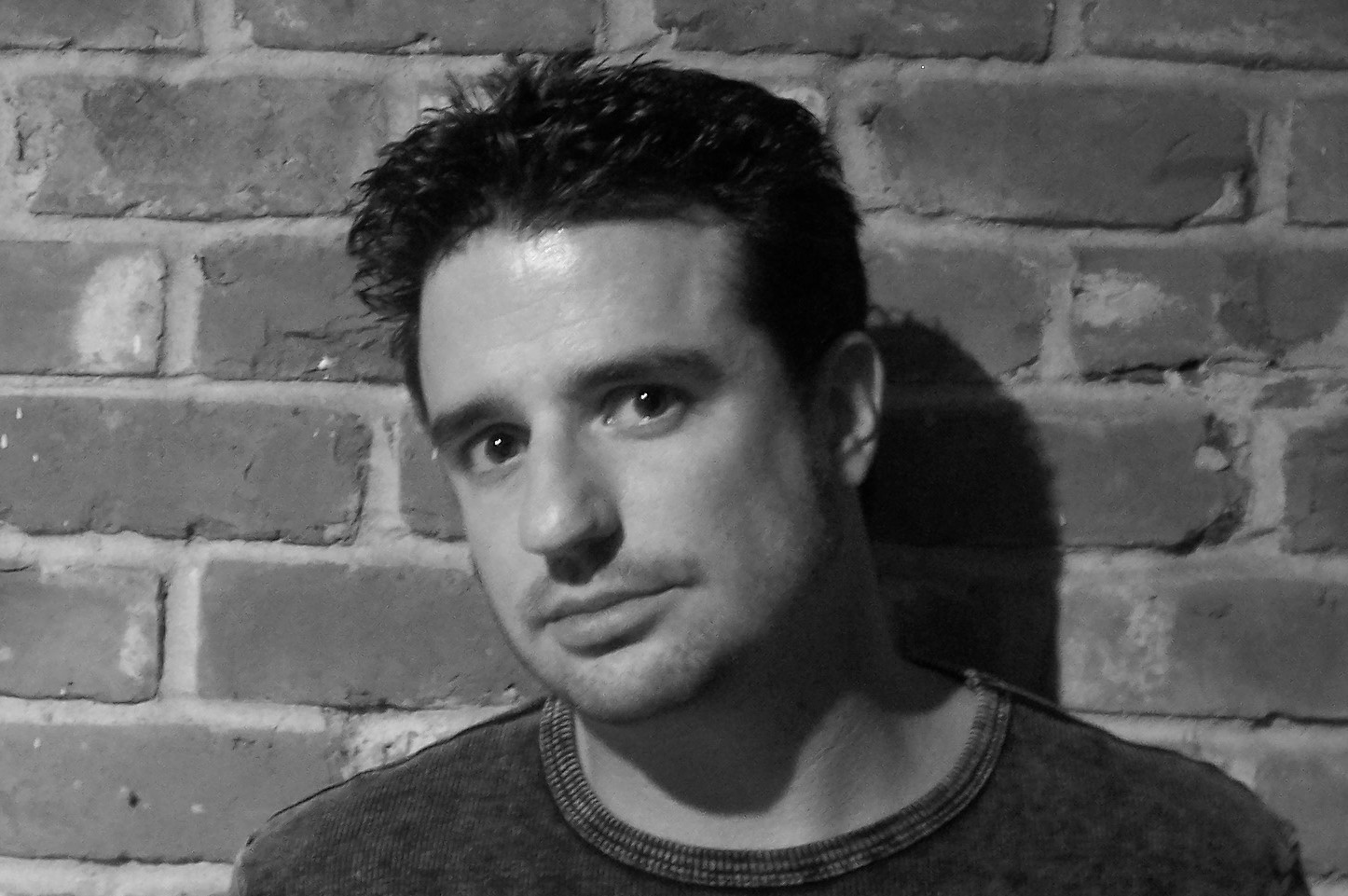 Donald William Rush Headshot